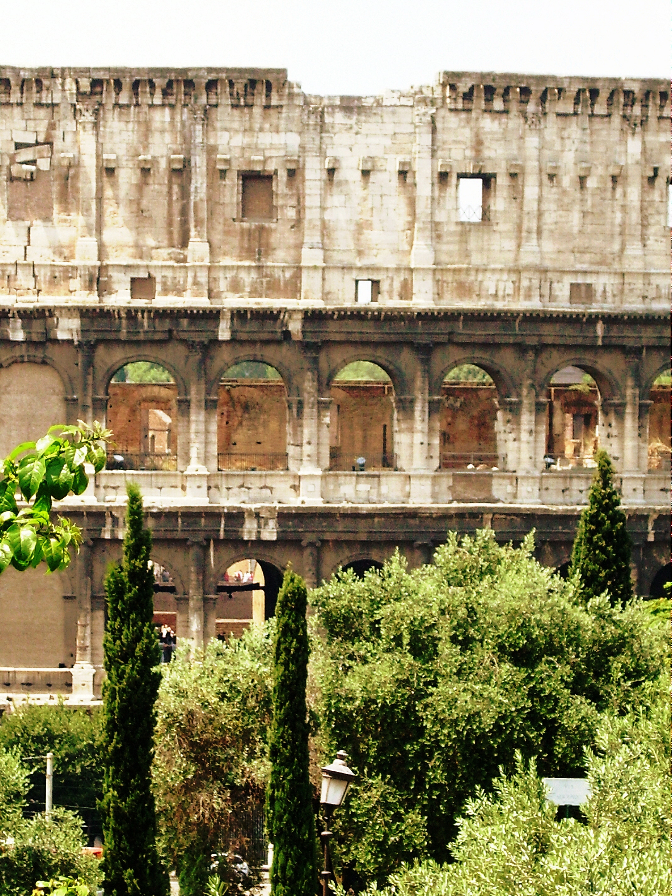 Rome - Colosseum Shardan - June 2007 Chase Riddle was here